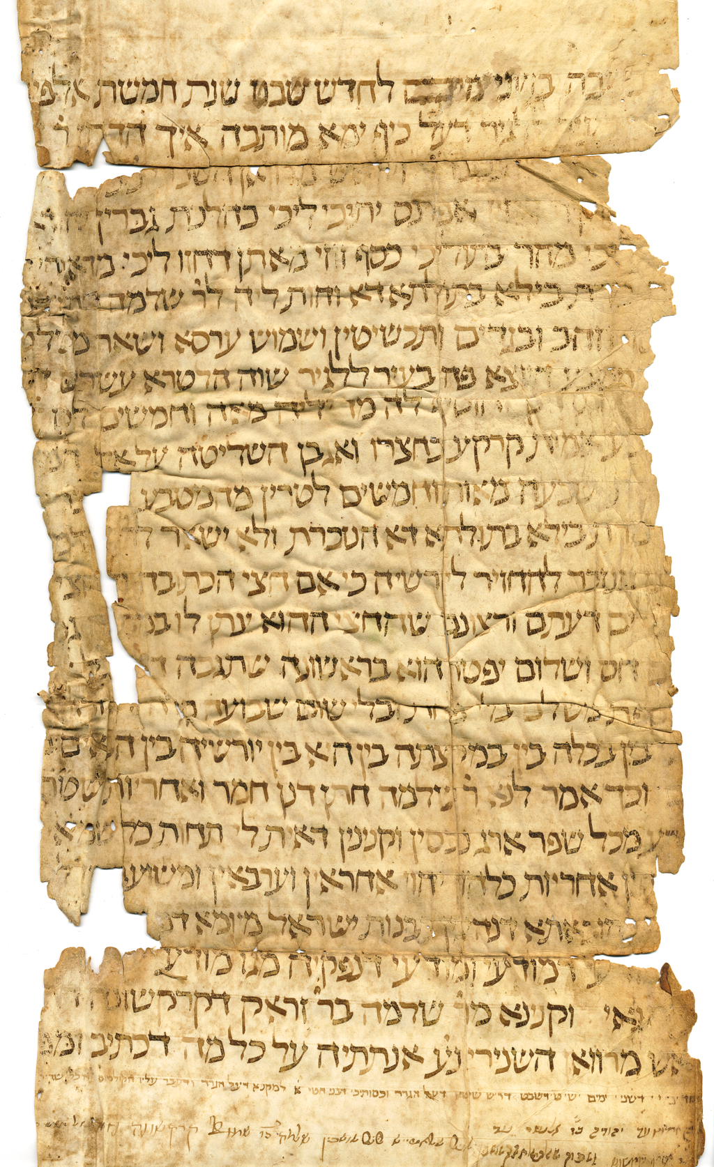 This ketubah, a marriage contract in Hebrew between two individuals identified as Shelomò, son of Zare of Carcassona and Bella di Merwanha, is a rare testimony to the Jewish presence in Sardinia, and specifically in Alghero on the northwestern coast of the island. In the second half of the 14th century, Alghero became the center of the Jewish community in Logudoro, a region in central-northern Sardinia. Jews enjoyed special privileges in Sardinia until the Inquisition and their expulsion in 1492, which was decreed by the ruler of Sardinia, Ferdinand II of Aragon (1452–1516), also known as Ferdinand the Catholic. Forced to leave their homes and communities, they took with them all of the records and objects that could attest to their once flourishing presence. This fragmentary document in the library of the University of Sassari was preserved in the binding of a book. Contracts; Ketubah; Marriage (Jewish law); Prenuptial agreements